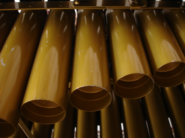 Resonators of a marimba.